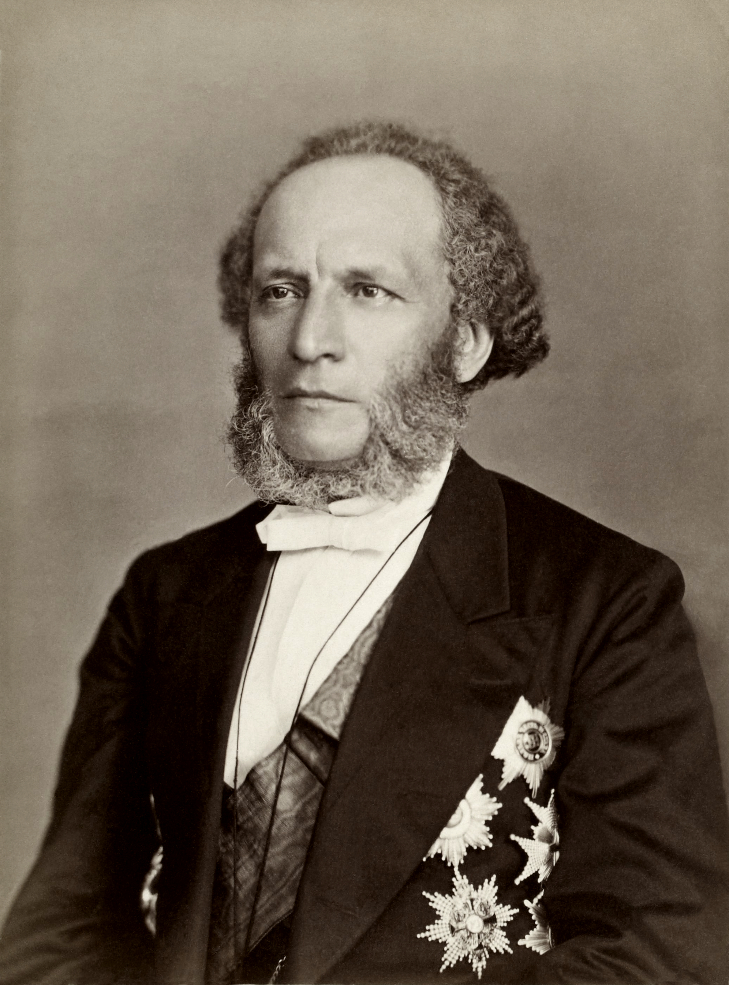 Pyotr Semyonov-Tyan-Shansky (1827 - 1914), russian geographer, statistician, botanist, entomologist...